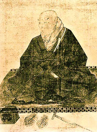 Shinran(親鸞) (1173-1263), the teacher of Nembutsu, founder of the Shin Buddhism